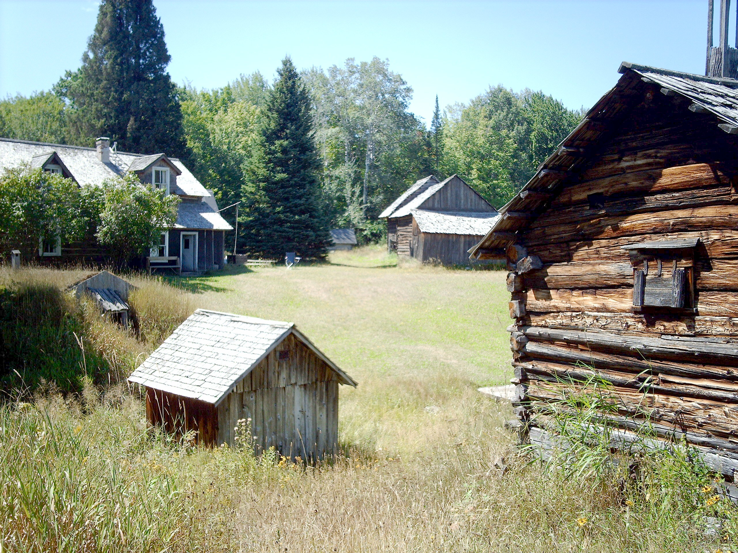 The Hanka Homestead — located within the Keweenaw National Historical Park, Upper Peninsula of Michigan. A Finnish-American "stump farm" homestead, originally settled around the turn of the twentieth century.